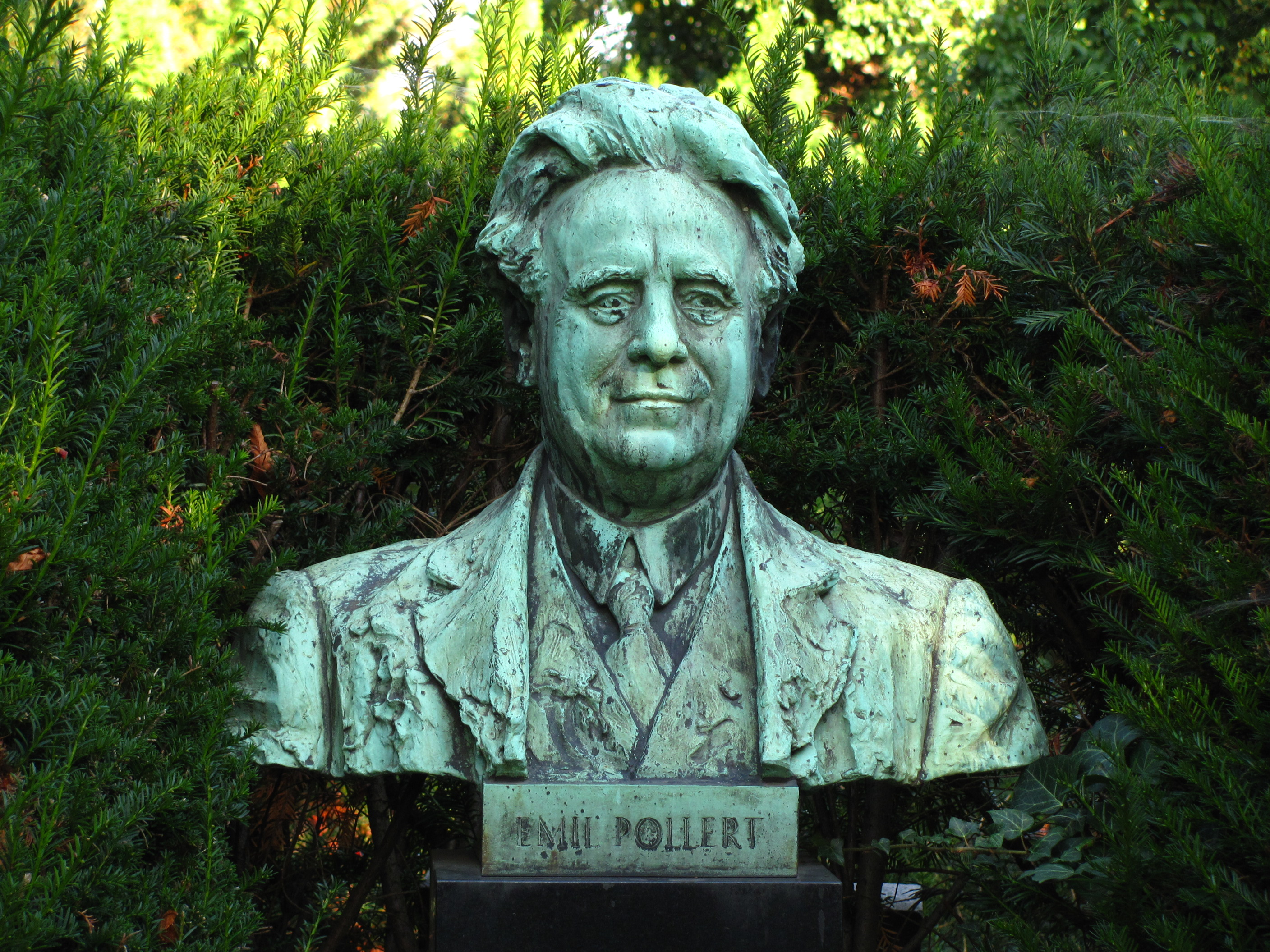 Detail of tomb of Emil Pollert at Vinohrady Cemetery in Prague